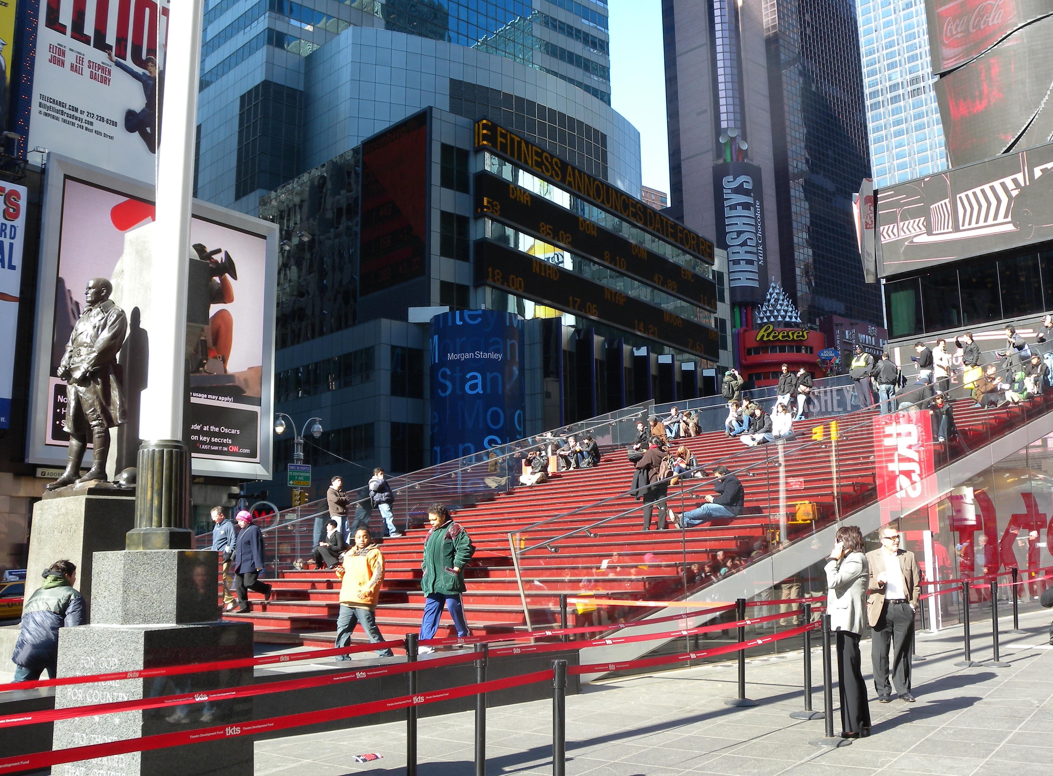 Looking north at red stairs of TKTS booth on a sunny early afternoon.